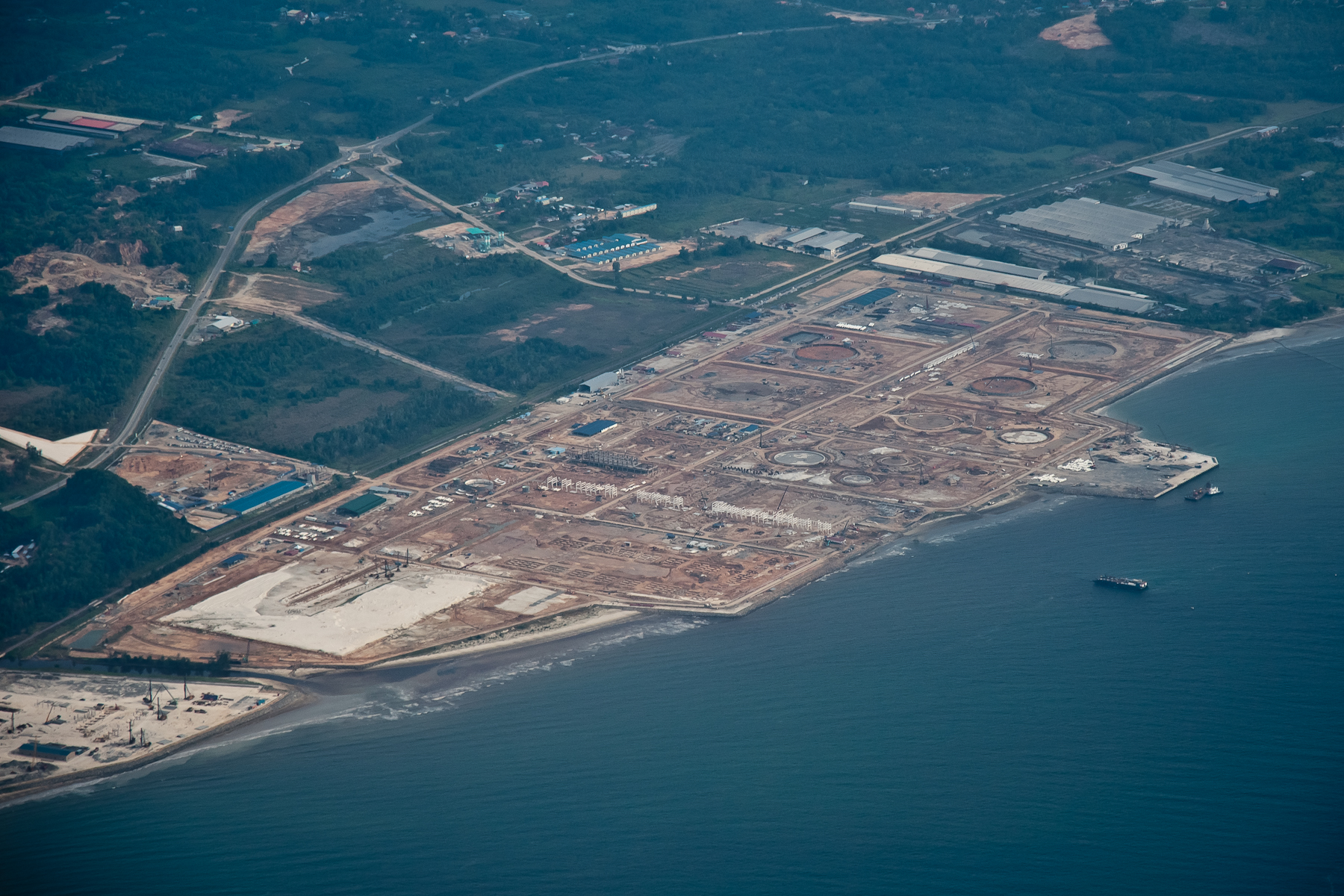 Aerial View of the Sabah Öl- and Gasterminal (SOGT) in Kimanis as part of the Sabah-Sarawak-Pipeline. Ongoing Construction work in November 2011